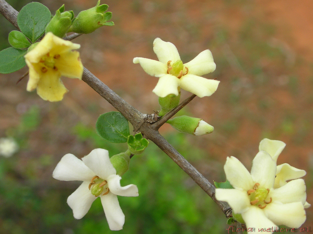 Family: Rubiaceae Local name(Telugu): Manga Distribution: Tropical scrub, forests of India , Asian and African countries Use: Powdered rind of fruit is used to remove dandruf, and for skin diseases. Description: Armed shrubs, 1-3mts tall, spines 1-2cm long, extra axillary, Leaves spathulate,1-3.5x 0.8-2cm, base cuneate, chartaceous, pubescent beneath. Flowers 1-1.5cm long, 2-2.5cm across, white first later turn yellow, axillary, solitary or in fascicles. BCalyx tube ovoid, often tubular, Corolla tube with a ring of hairs within, lobes 5, twisted, stamens 5, anthers linear, ovary 2 celled, many seeded.Berries subglobose, woody, green to yellow, slighitly ribbed, 1.5-2cm across.